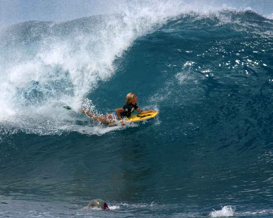 Daniela Freitas competing at the World Championships of Women's Bodyboarding